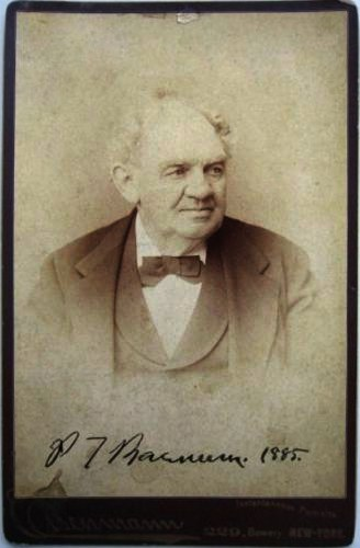 1885 signed cabinet card portrait photograph of P.T. Barnum